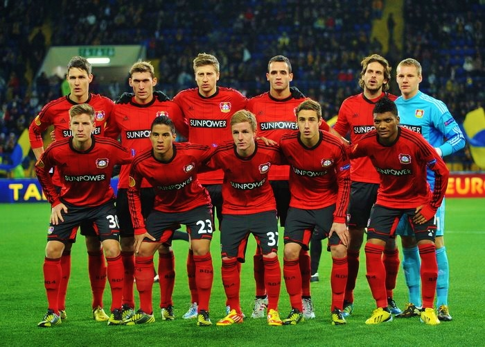 Bayer Leverkusen 2012